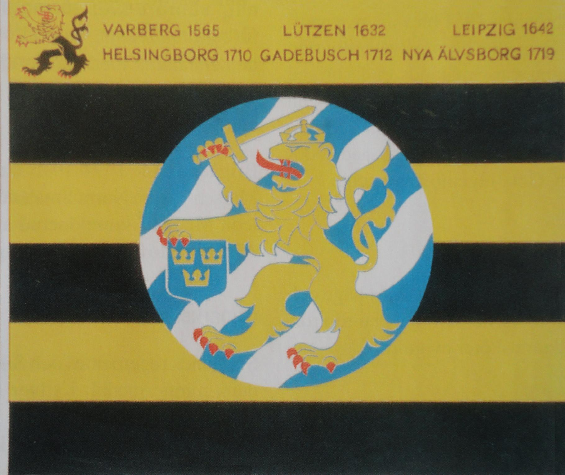 Älvsborgs Brigade (15th Infantry Bde) colors of 1995